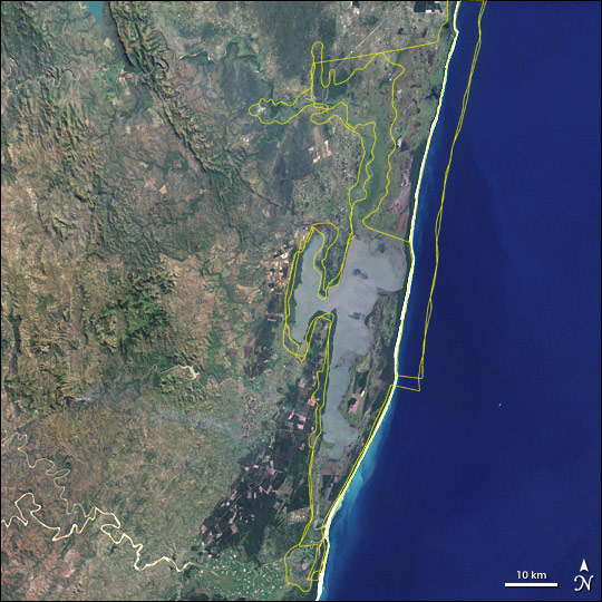 Satellite image of Greater St. Lucia Wetland Park, South Africa. Borders of the various conservation areas in the park are outlined in yellow.